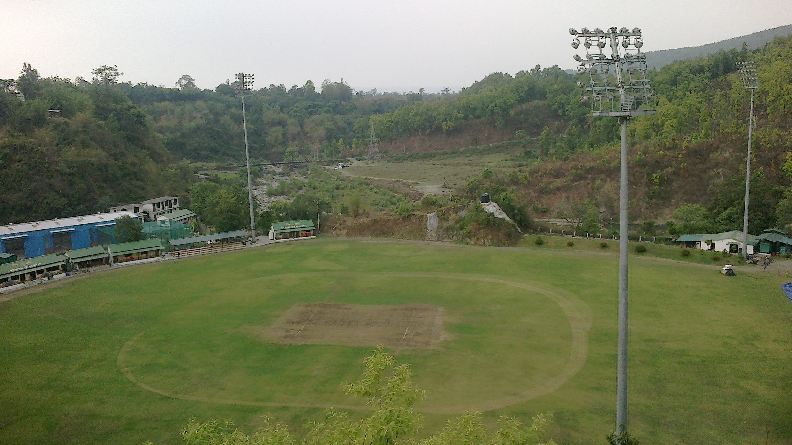 Abhimanyu Cricket Academy is a cricket academy in Dehradun, Uttarakhand